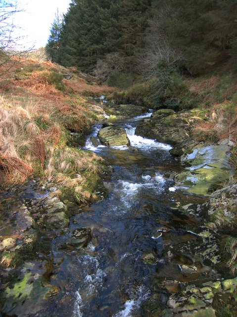 Upper Mynach The fast-flowing upper part of the Mynach. Photo taken from the footbridge where the right of way crosses the river. The bridge is not on the OS map. This square is mostly part of a Forestry Commission conifer plantation, except for a few fields of farmland immediately north of this section of the river. The Mynach valley is about 150m deep and runs E-W.